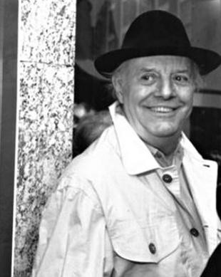 Dario Fo